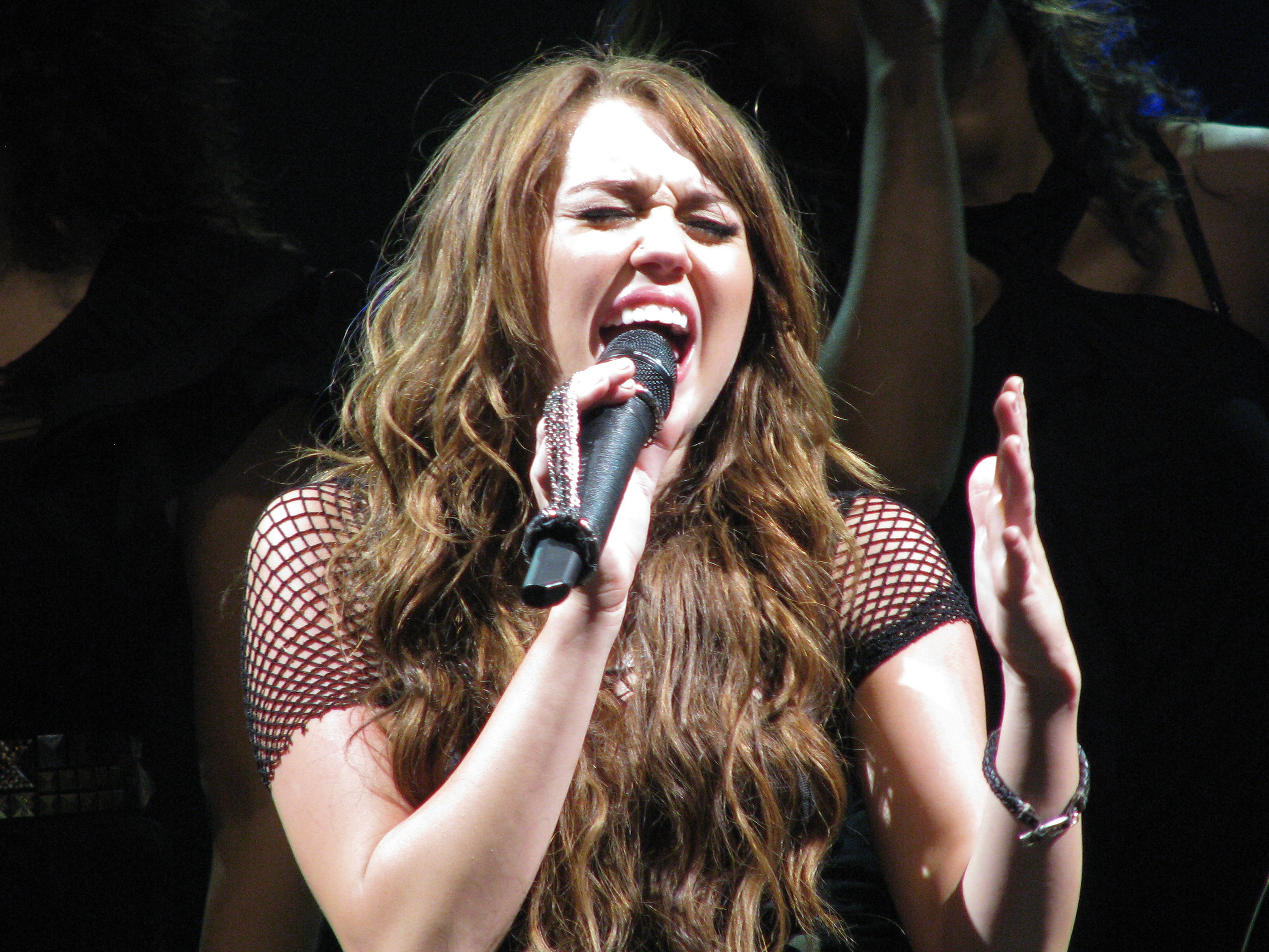 A teen singing.